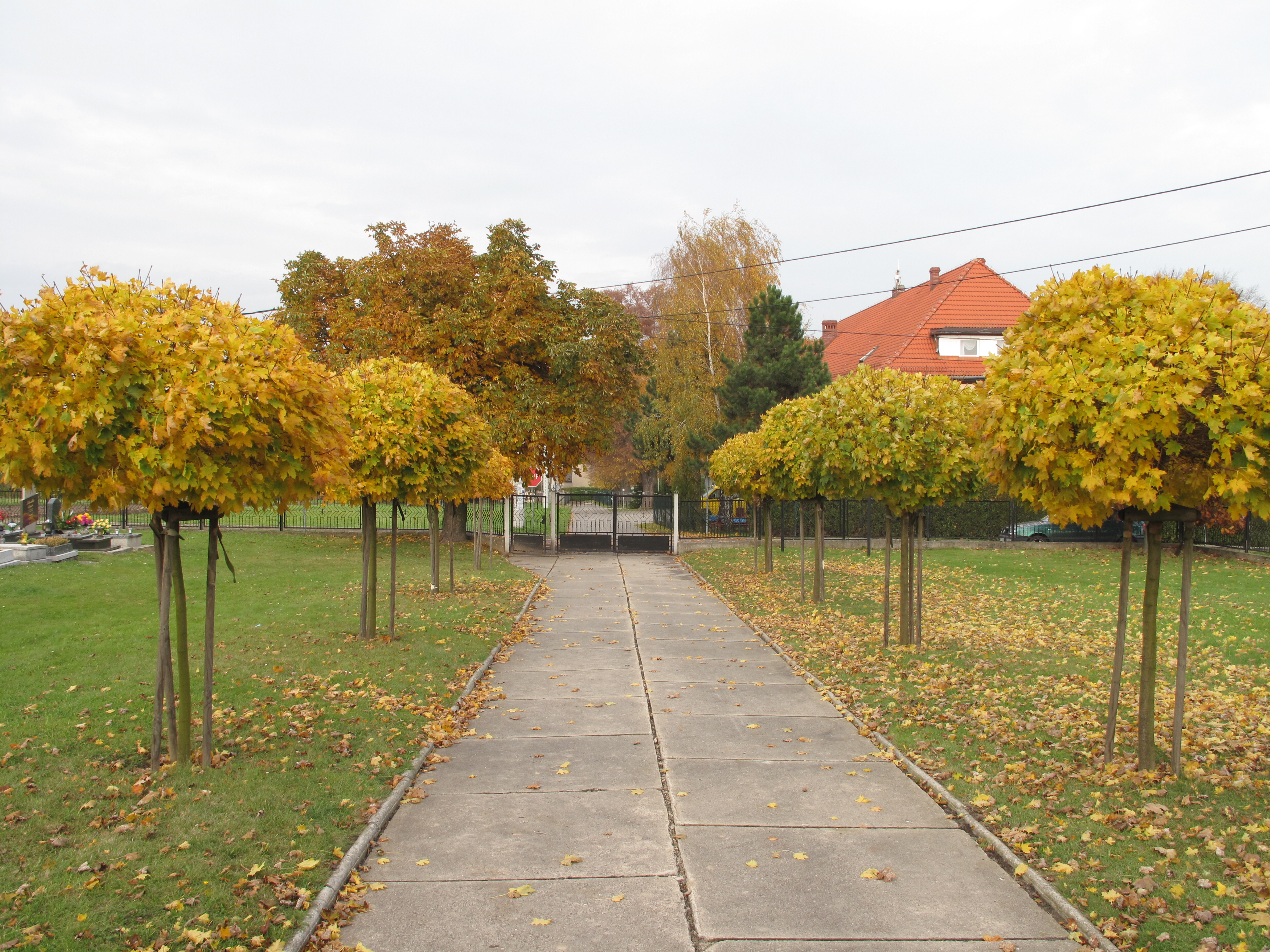 Samborowice (województwo śląskie). Racibórz County, Poland.